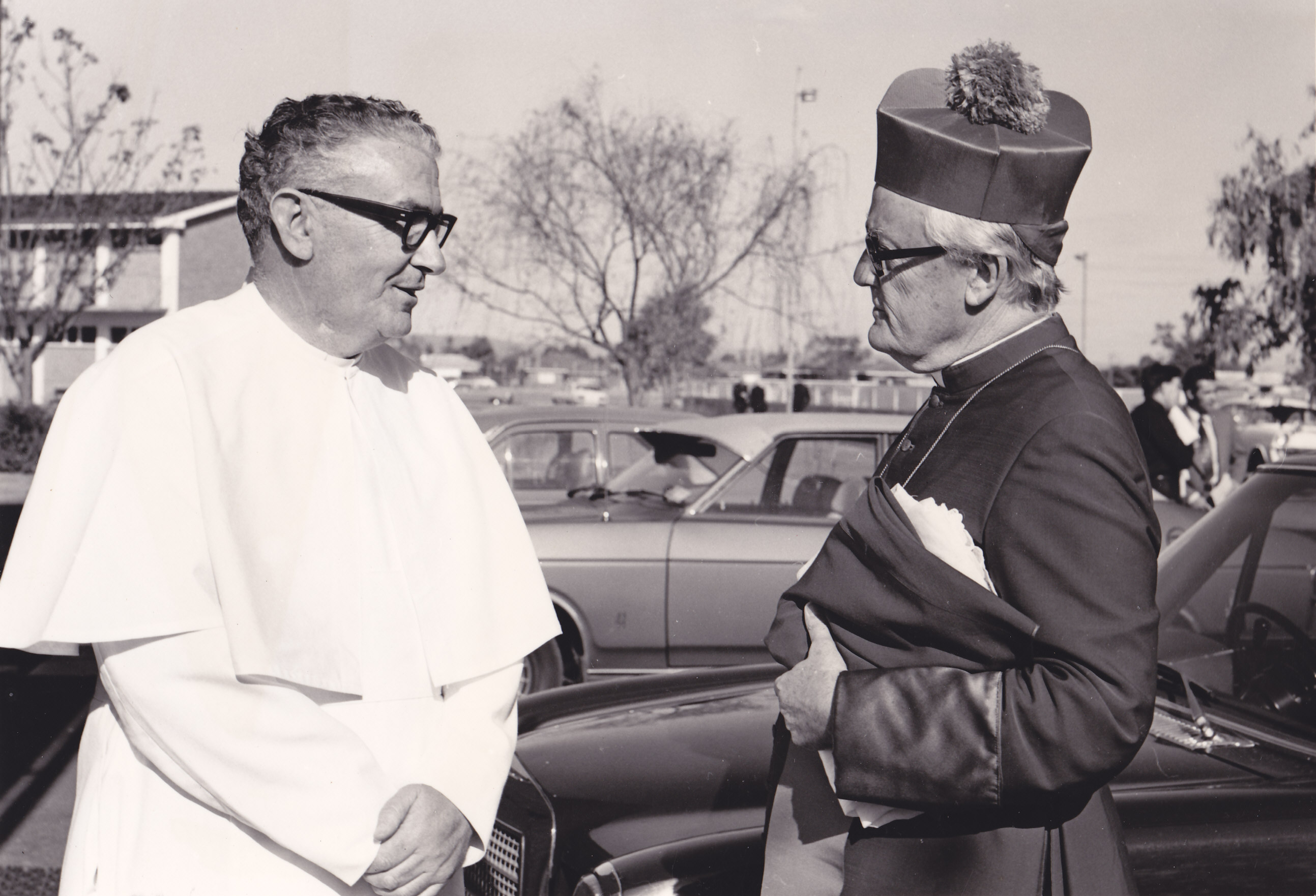 Fr Peter OReilly with Archbishop Goody